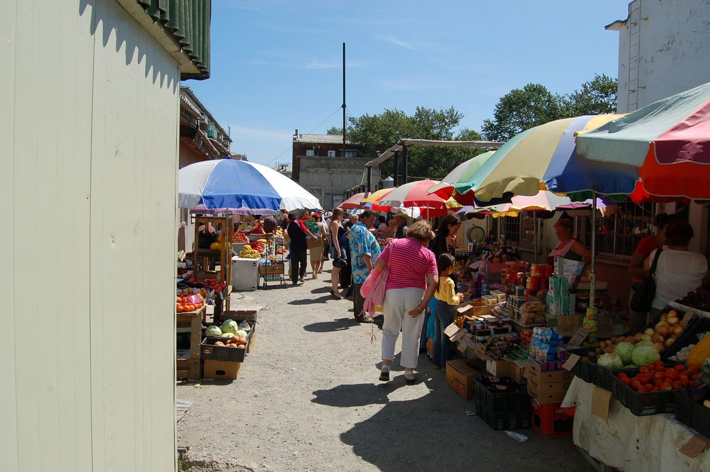 sakha, Market in Yuzhno-Sakhalinsk Location: Yuzhno-Sakhalinsk